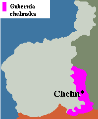 Chełm Governorate / Gubernia chełmska (1912-1914)